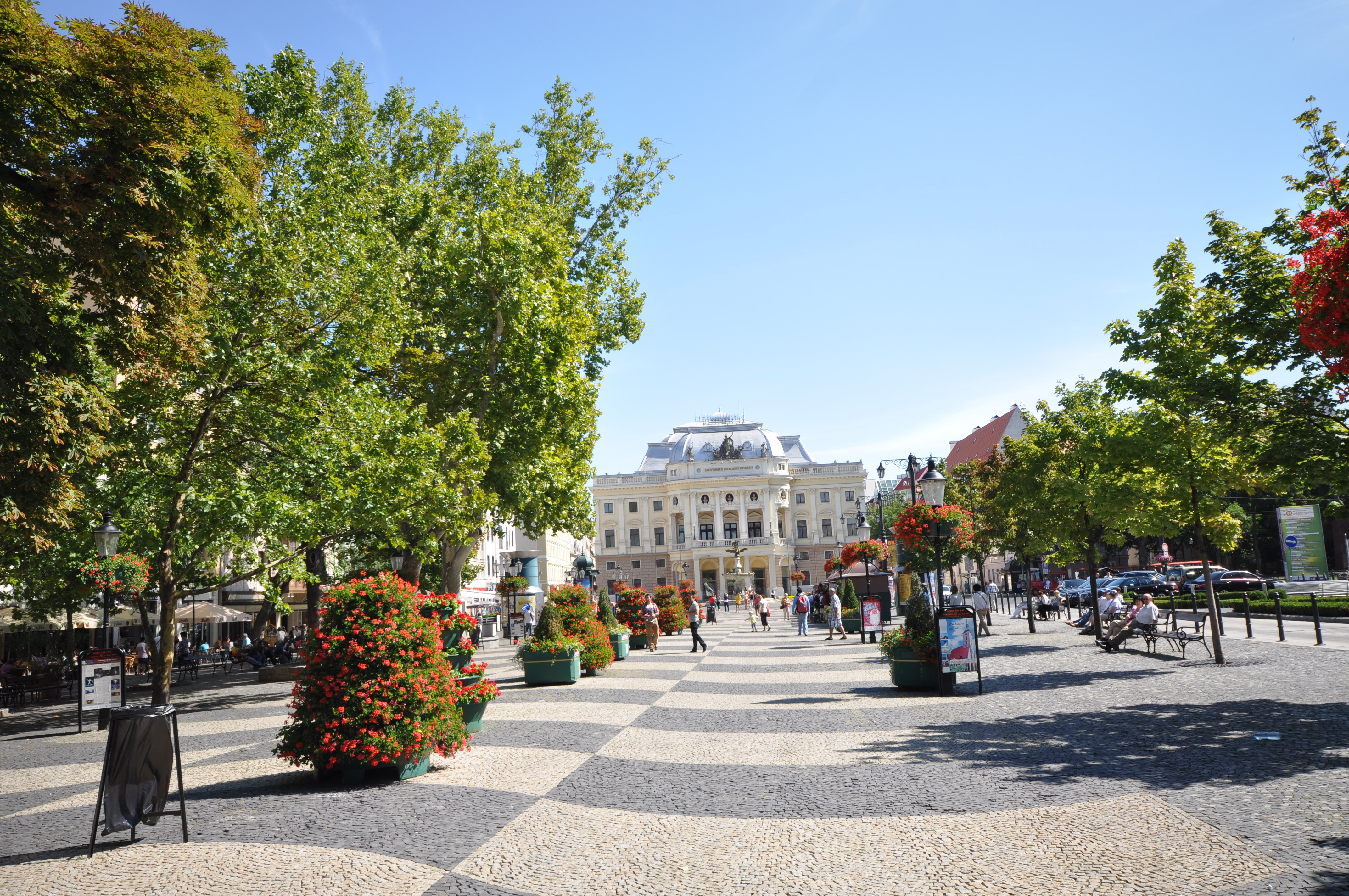 Hviezdoslavovo námestie (literally Hviezdoslav Square) is one of the best-known squares in Bratislava. It is located in the Old Town, between the New Bridge and the Slovak National Theatre. The square is named after Pavol Országh Hviezdoslav. History This square existed in the Kingdom of Hungary for 1000 years. Many of medieval houses were built here. Northern part of this square there are Kőszeghy, Eszterházy,Széchen, Stáhl, Záborszky, Pálffy, Sulkovszky Maldeghem, Malatinszky, Werner houses and southern part of square there are Spineger, Gervay, Löw-Palugyay, Kozics, Wigand, Adler, Pollák, Sprinzl houses. The most notable buildings are the Notre Dame cloister and today's Slovak National Theatre which can be found in the eastern part of square. Earlier the most important noblemen sent their daughters to learn in this cloister, for example: Pálffy, Forgách, Harrach, Lichtenstein. On 17 March 1848 the Hungarian national leader, Lajos Kossuth proclaimed from Hotel Zöldfa (literally : Greenwood)'s balcony: "Hungary's reborn" to the assembling mass at this square because Ferdinand V signed March laws at the Primate's Palace last day. First Hungarian fancing school's practising hall also worked here. Lajos Kossuth, Franz Joseph, Albert Einstein and Alfred Nobel stayed at this hotel too. This hotel was today's Hotel Carlton's place. In 1911 Sándor Petőfi's sculpture was erected opposite today's Slovak National Theatre. However it was unsuccessfully attacked with dynamite after the Czechoslovak army occupied the city in 1918. After this sculpture was boarded over round temporarily until its removal. The square underwent major reconstruction at the end of the 20th century. Before reconstruction, it looked like a small city park; now it looks like a city promenade. On February 24, 2005 US President George W. Bush gave a public speech in Hviezdoslav Square during his visit to Bratislava for the Slovakia Summit 2005 with the president of Russia Vladimir Putin